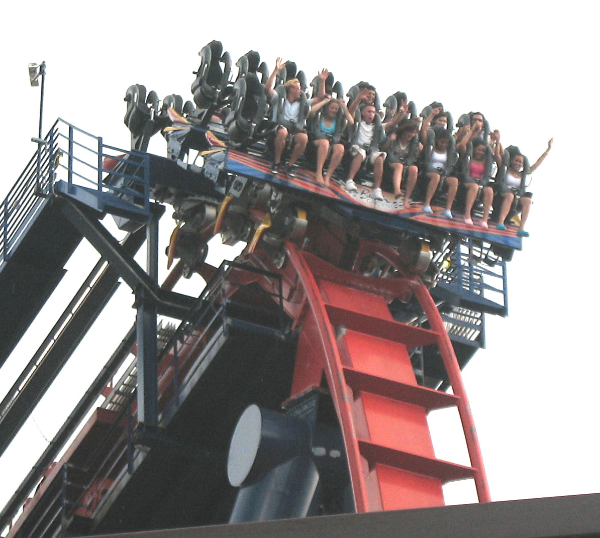 The first drop of SheiKra at Busch Gardens Tampa.